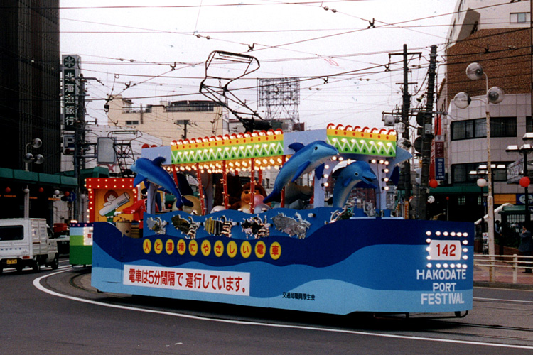 Hakodate Transportation Bureau's Float Trams, in Hakodate Port Festival. These cars run for advertisement, not for passengers. 函館市交通局の花電車。写真は2001年の函館港祭り時のもの。